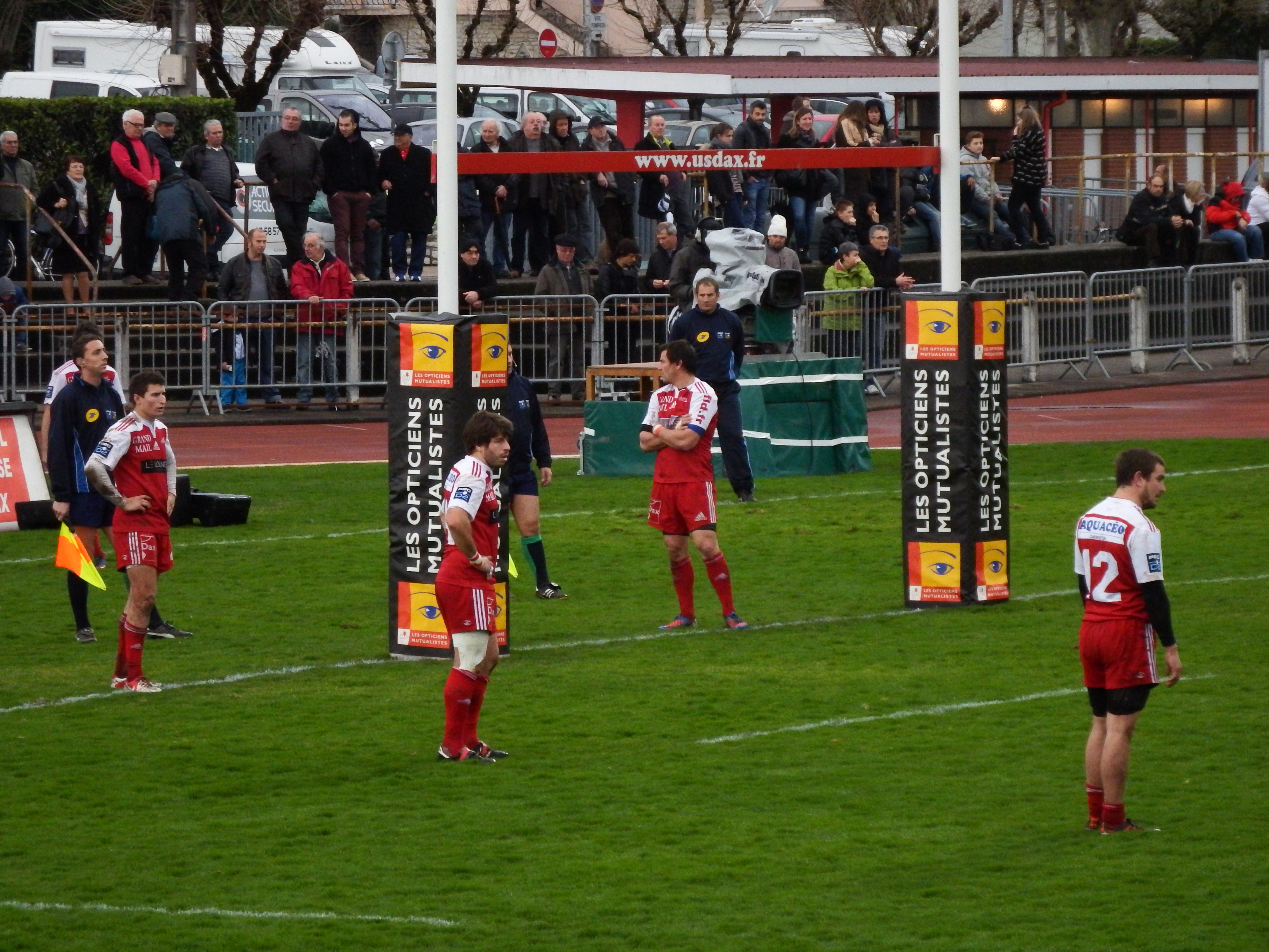 Pro D2 2013-2014 — 26 January 2014, Stade Maurice Boyau. Match between: US Dax — Atlantique Stade Rochelais